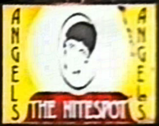 Sign above the main entrance of the former Angels nightclub in Burnley